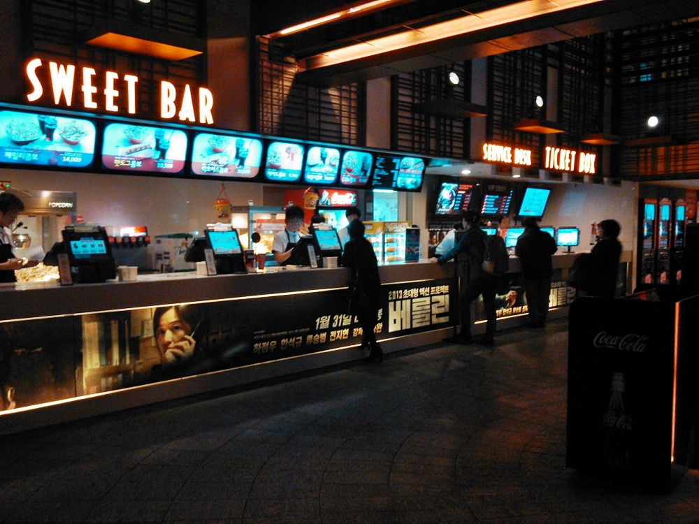 CJ CGV Dongnae in Dongnae-gu, Busan.